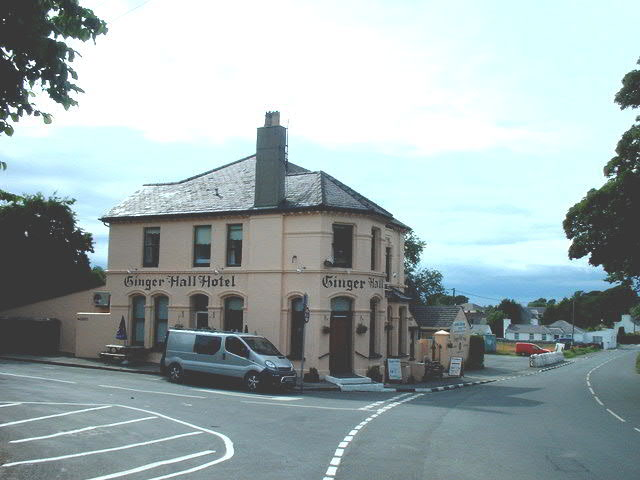 Ginger Hall Hotel at Sulby One of the landmarks on the T.T. motorcycle racecourse.